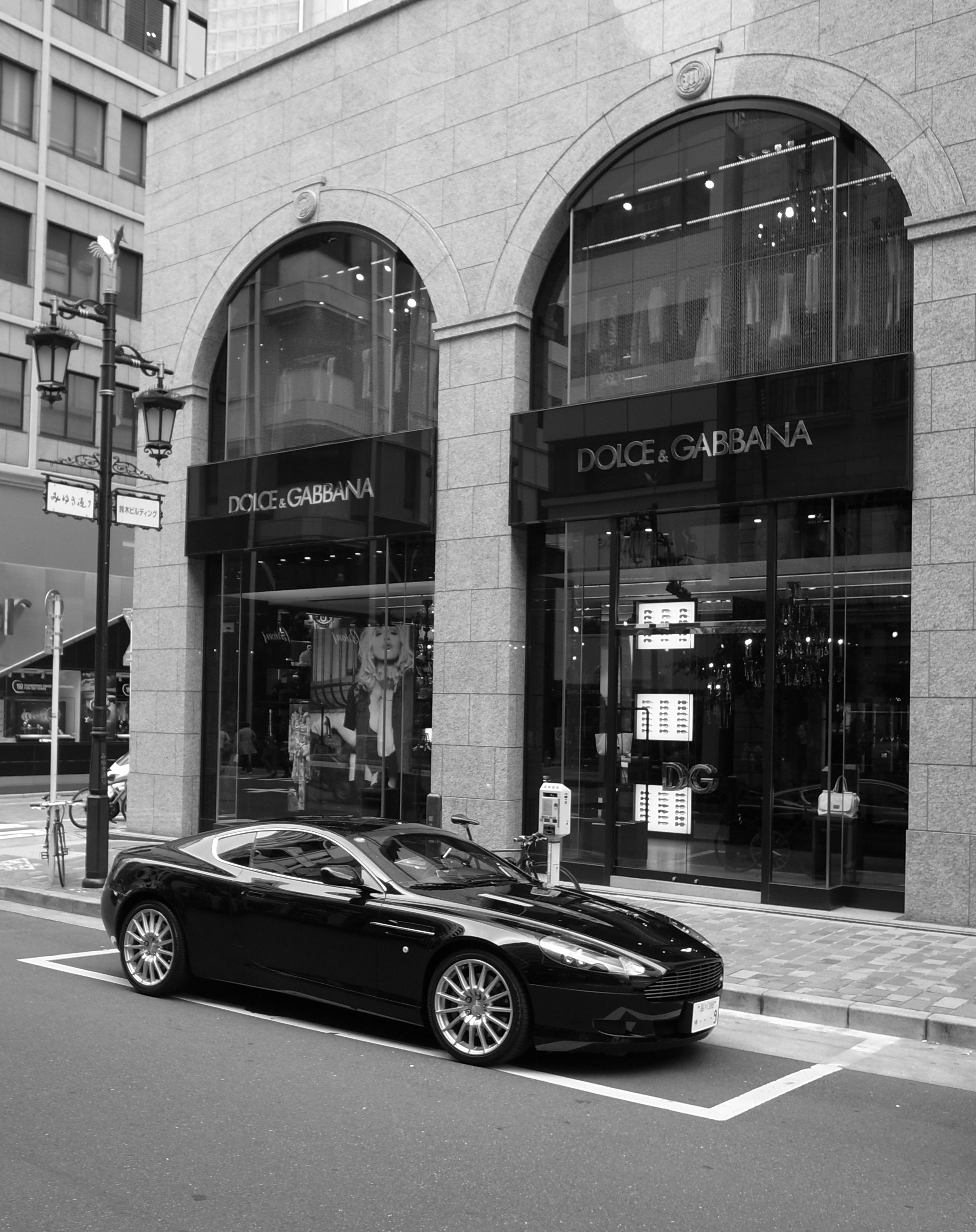 Aston Martin in front of the Dolce & Gabbana store in Ginza, Tokyo